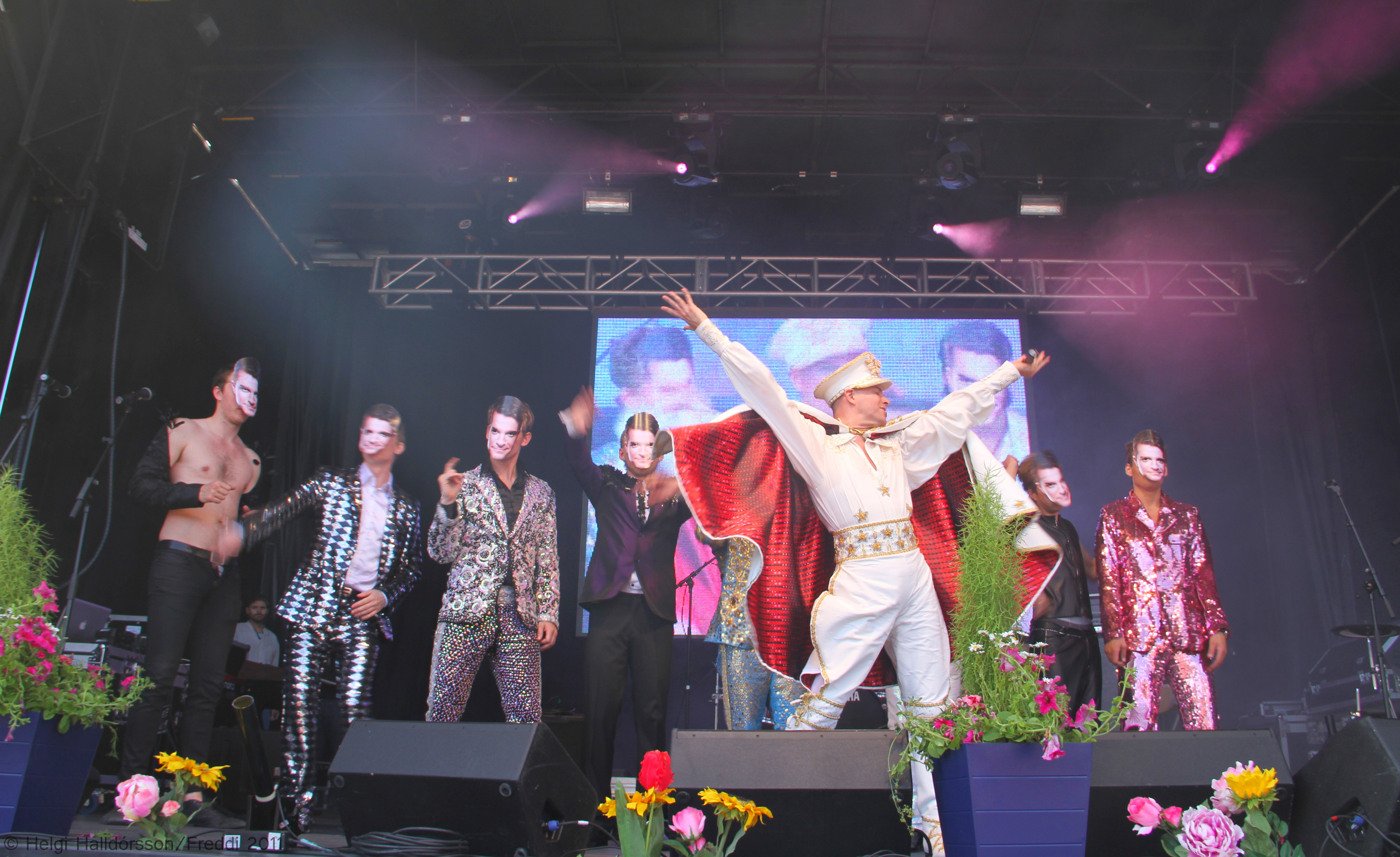 The Icelandic popstar Páll Óskar / Paul Oscar sings at Reykjavík Gay Pride 2011.